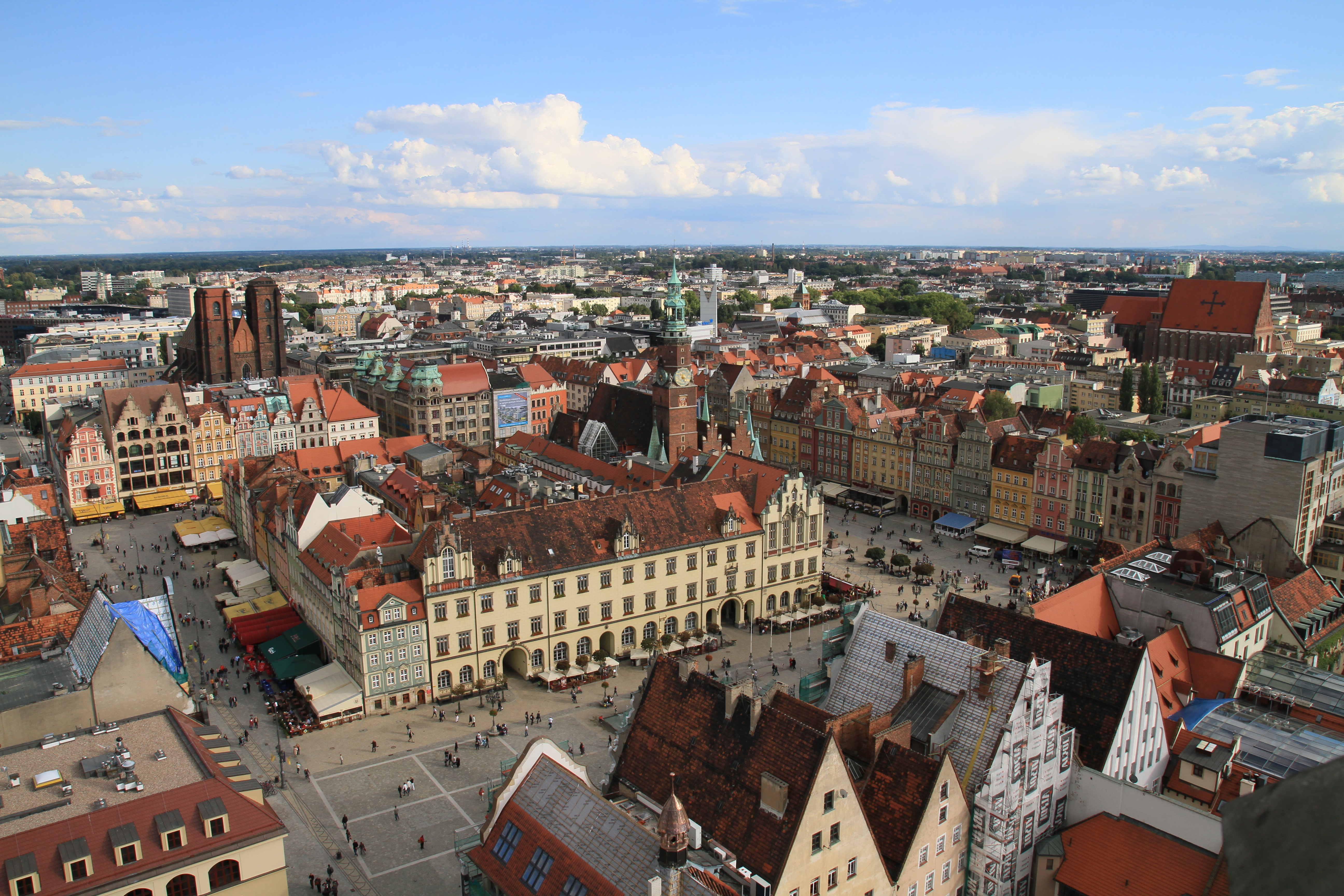 Rynek (Main market) in Breslau summer 2010